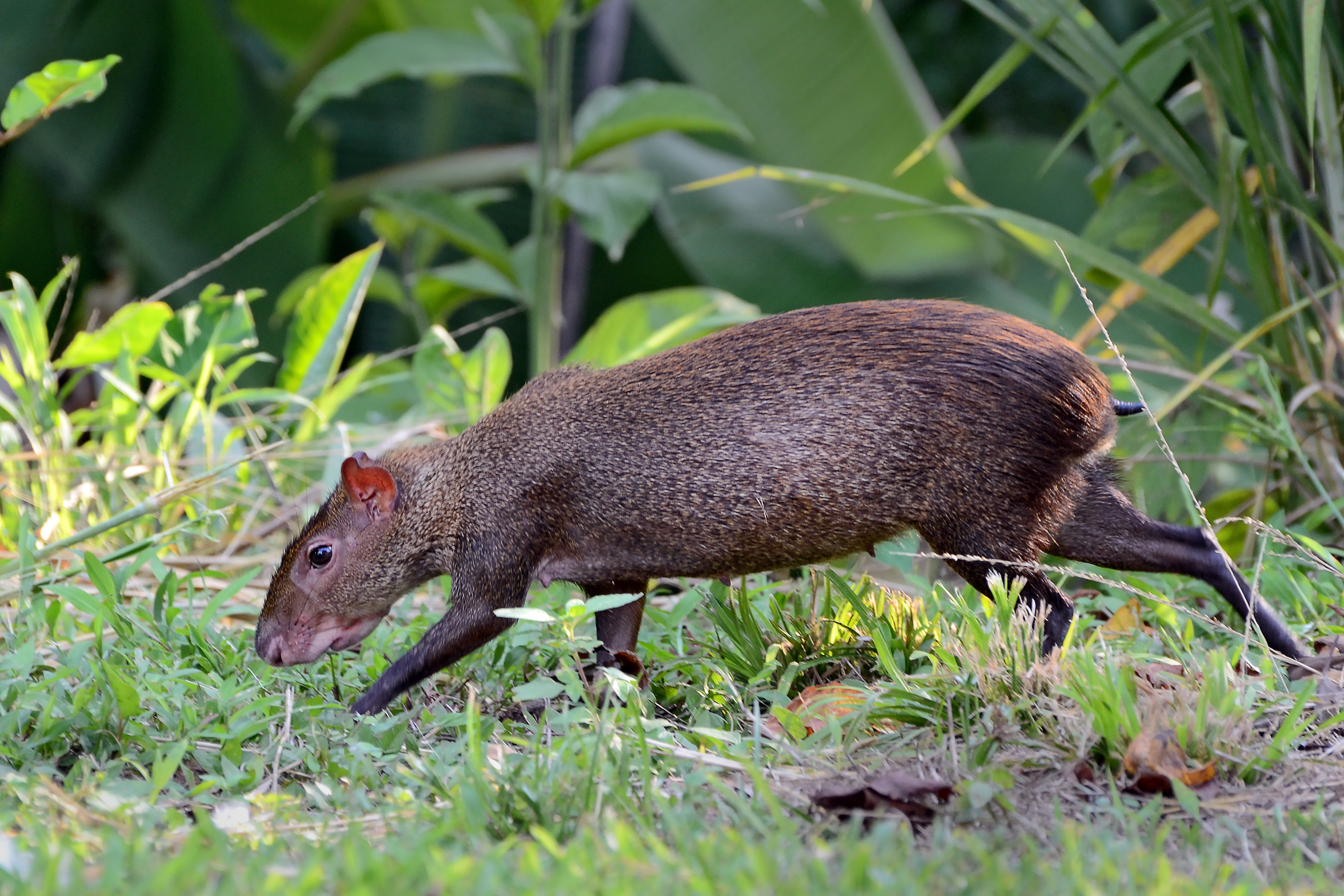 A Central American Agouti (Dasyprocta punctata) in Gamboa, Colón, Panama.